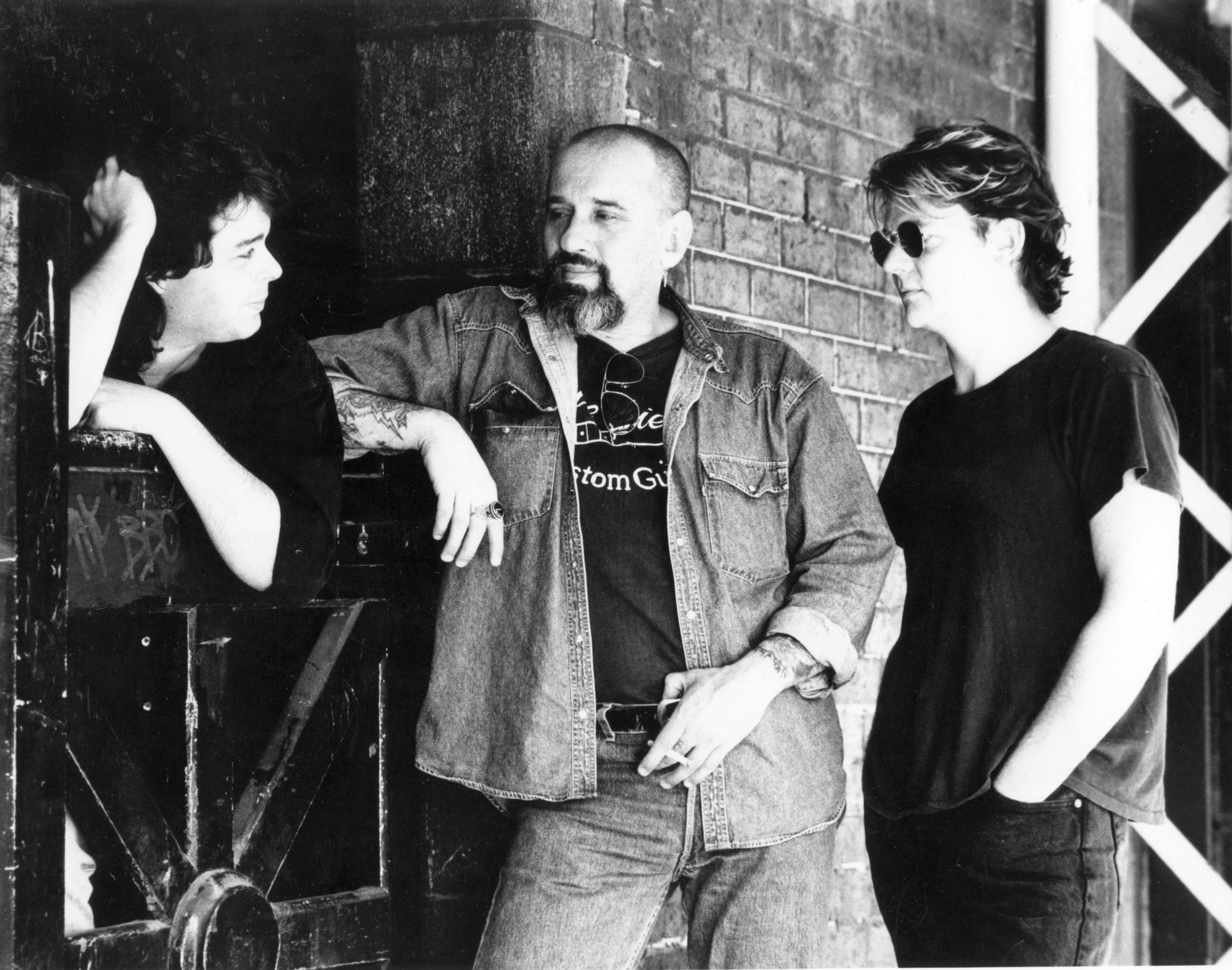 Promo photo of musical band Hillbilly Moon, taken 1994, Melbourne Australia